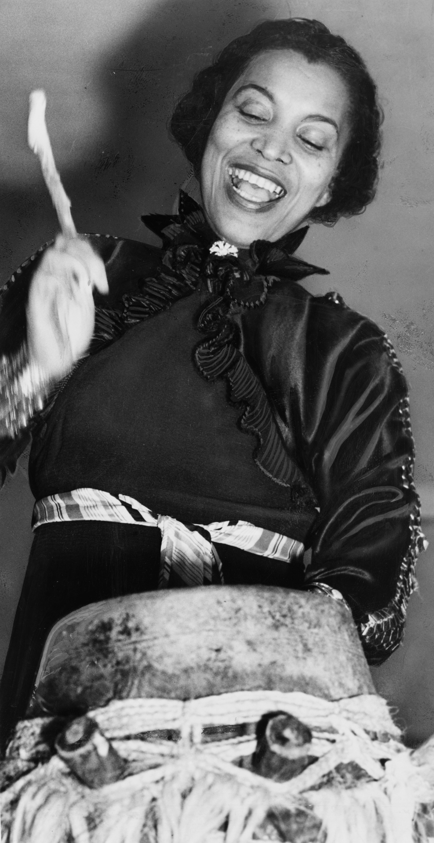 Zora Neale Hurston, beating the hountar, or mama drum